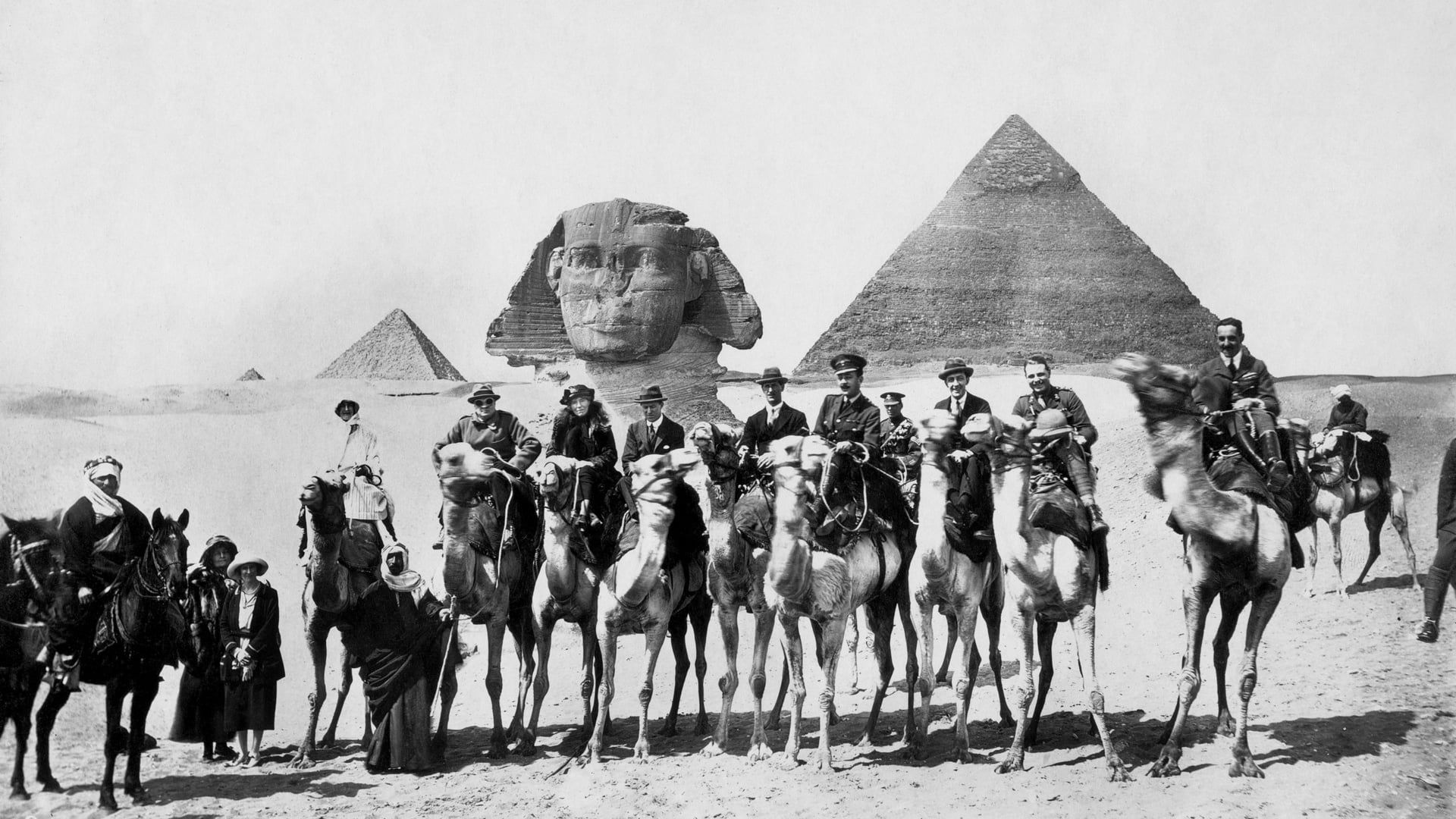 A few of the 39 participiants of the Cairo Conference that took place in Cairo, march 1921